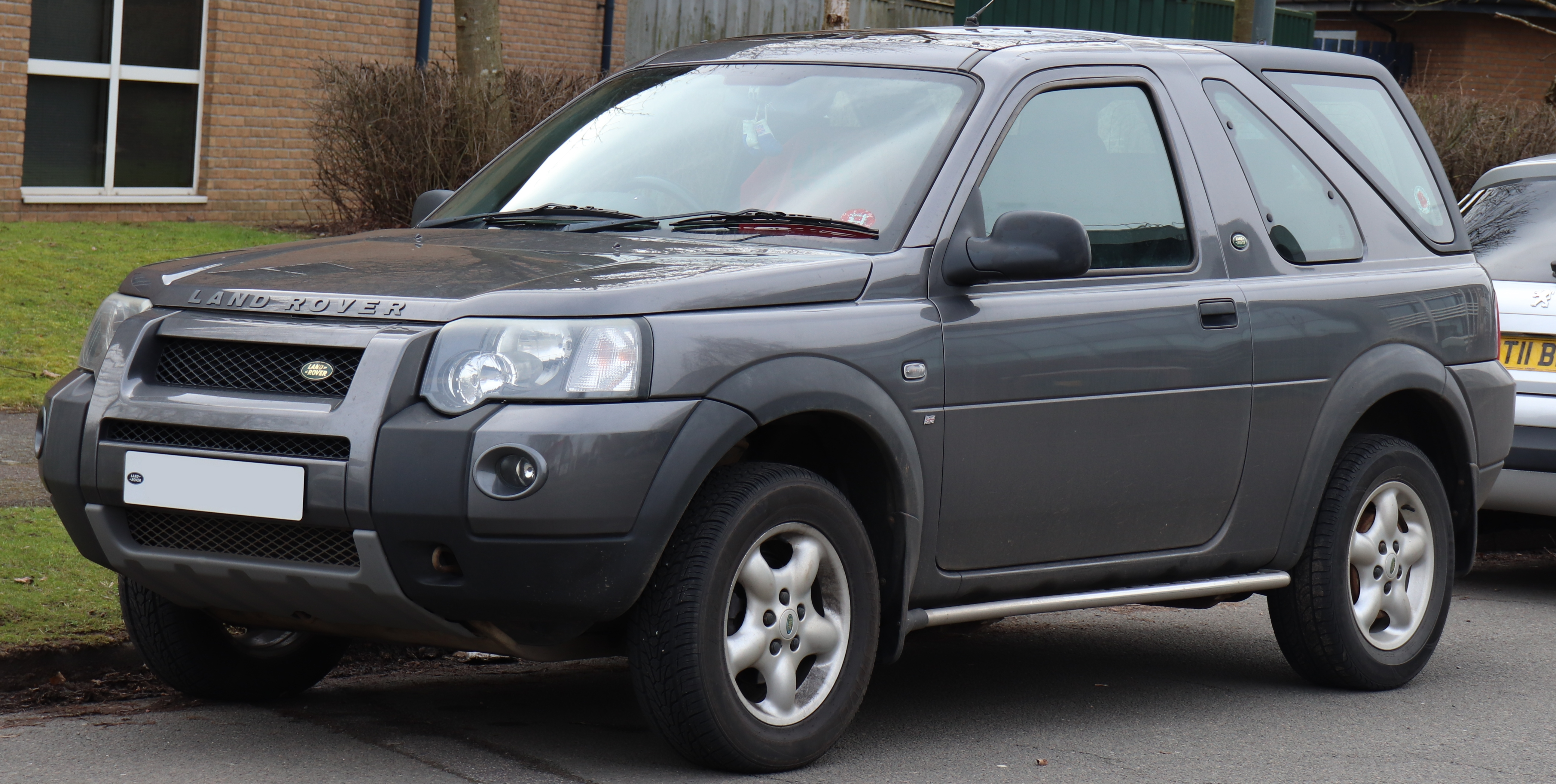 2007 Land Rover Freelander TD 2.0 facelift Front Taken in Leamington Spa